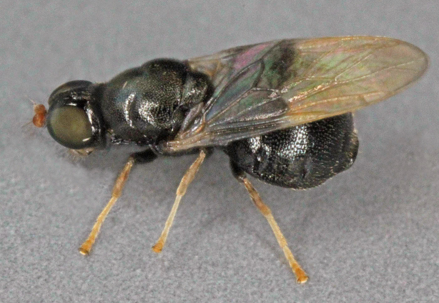 Pachygaster atra, Deeside, North Wales, June 2011 3